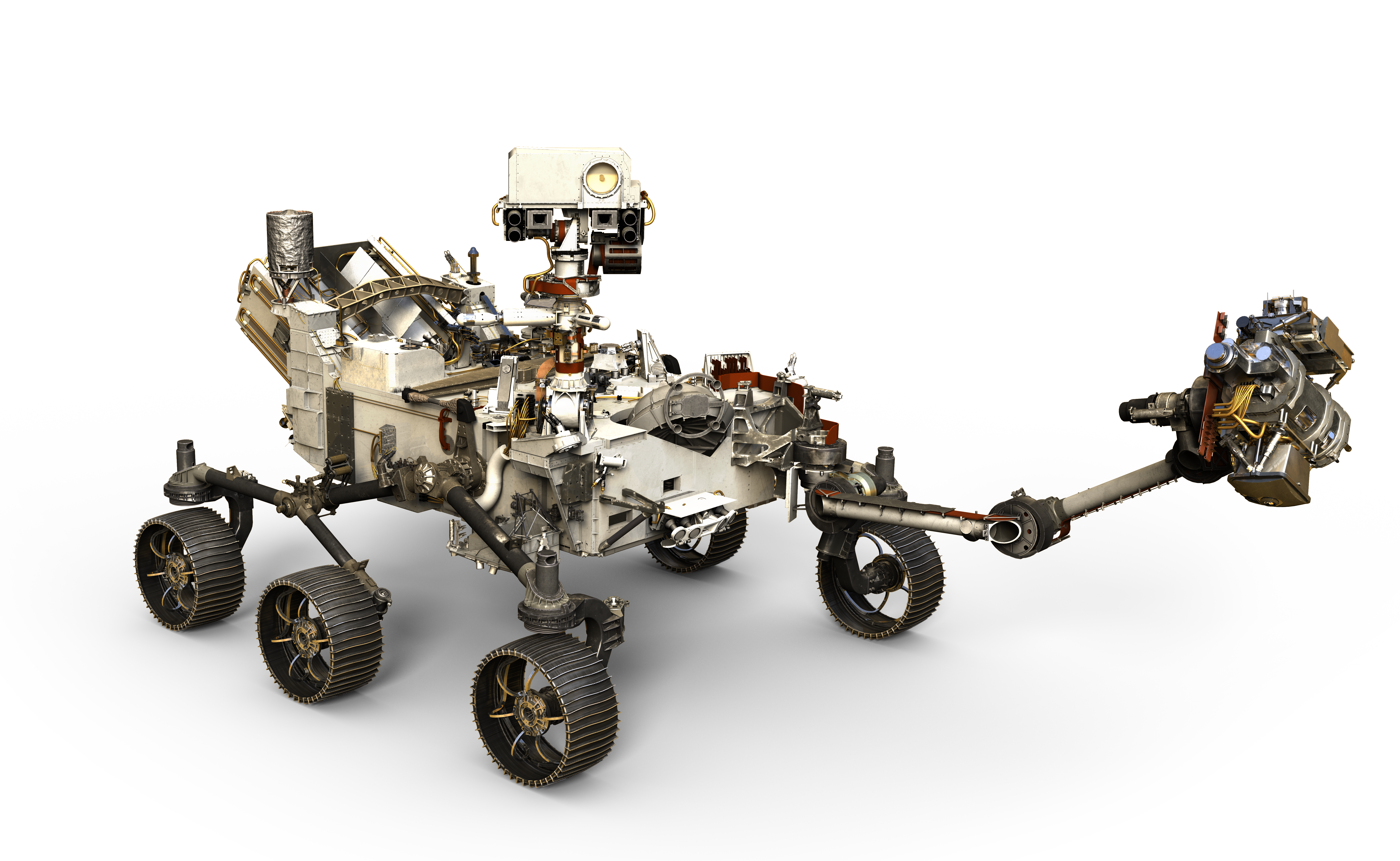 This artist's rendering depicts NASA's Mars 2020 rover, with its robotic arm extended. The rover's basic structure capitalizes on the design and engineering work done for the NASA rover Curiosity, which landed on Mars in 2012, but includes new science instruments and other engineering upgrades. The Mars 2020 mission is part of NASA's Mars Exploration Program. NASA's Jet Propulsion Laboratory, a division of the California Institute of Technology, Pasadena, manages NASA's Mars Exploration Program for the NASA Science Mission Directorate, Washington.